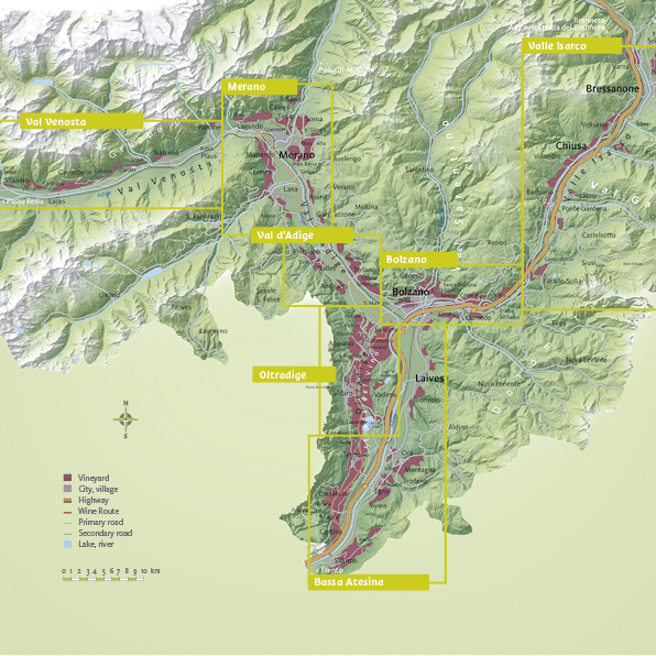 7 wine cultivation zones of South Tyrol